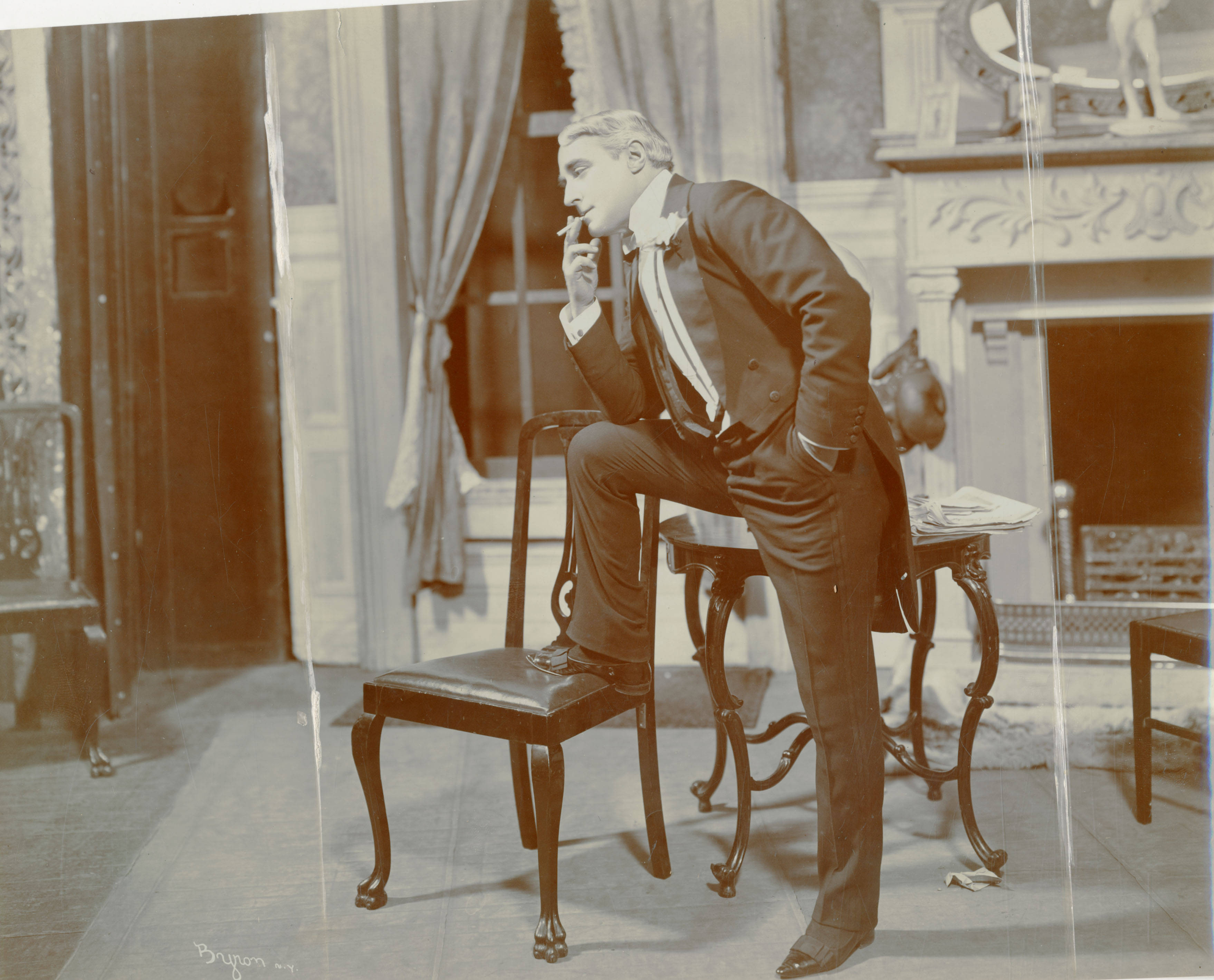 A scene from "Raffles," which opened Oct. 12, 1904, at the Grand Opera House, Seattle. Includes Kyrle Bellew. Subjects: plays, actors